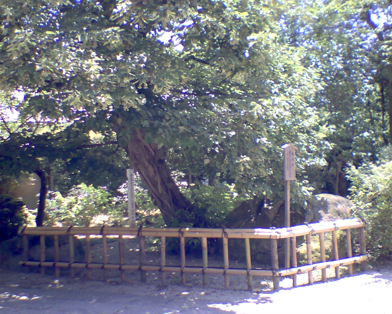 This photograph is the tree that had been planted by a priest named Ganjin.The tree is very old which on a temple named Kaidanin (or Kaidan-in